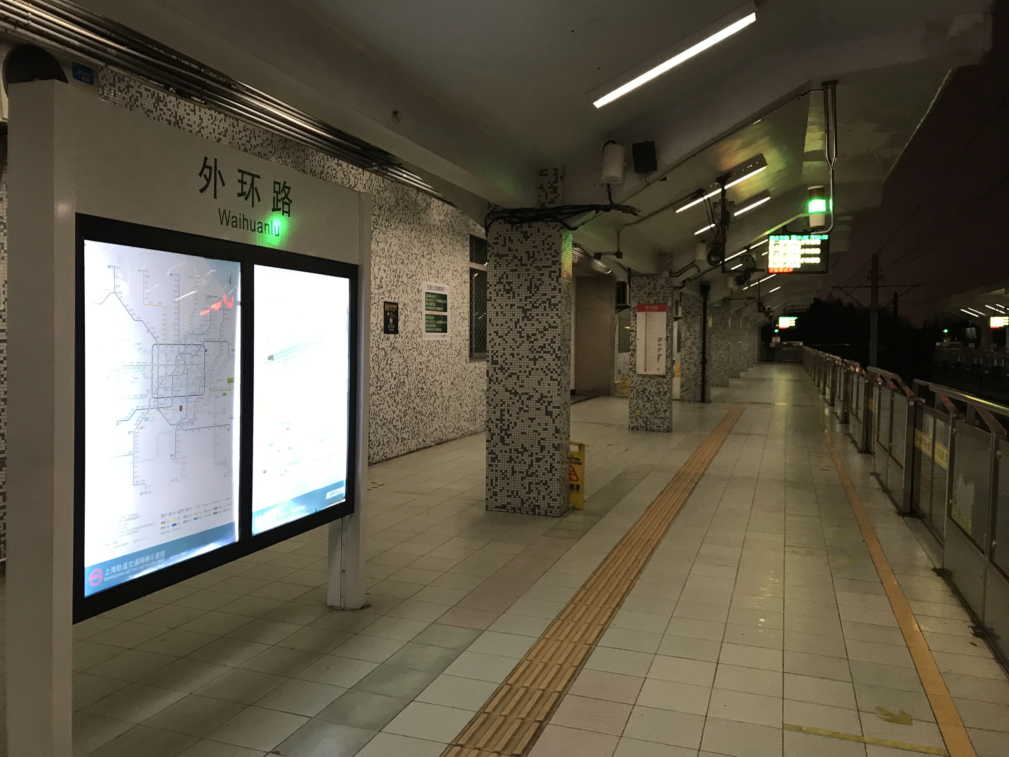 201901 Nameboard of Waihuanlu Station